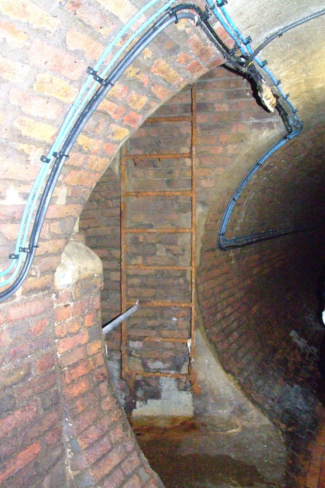 This is what lies beneath those manhole covers one sees in the road in Brighton.